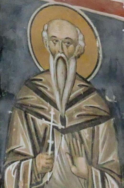 fresco of Peter the Iberian